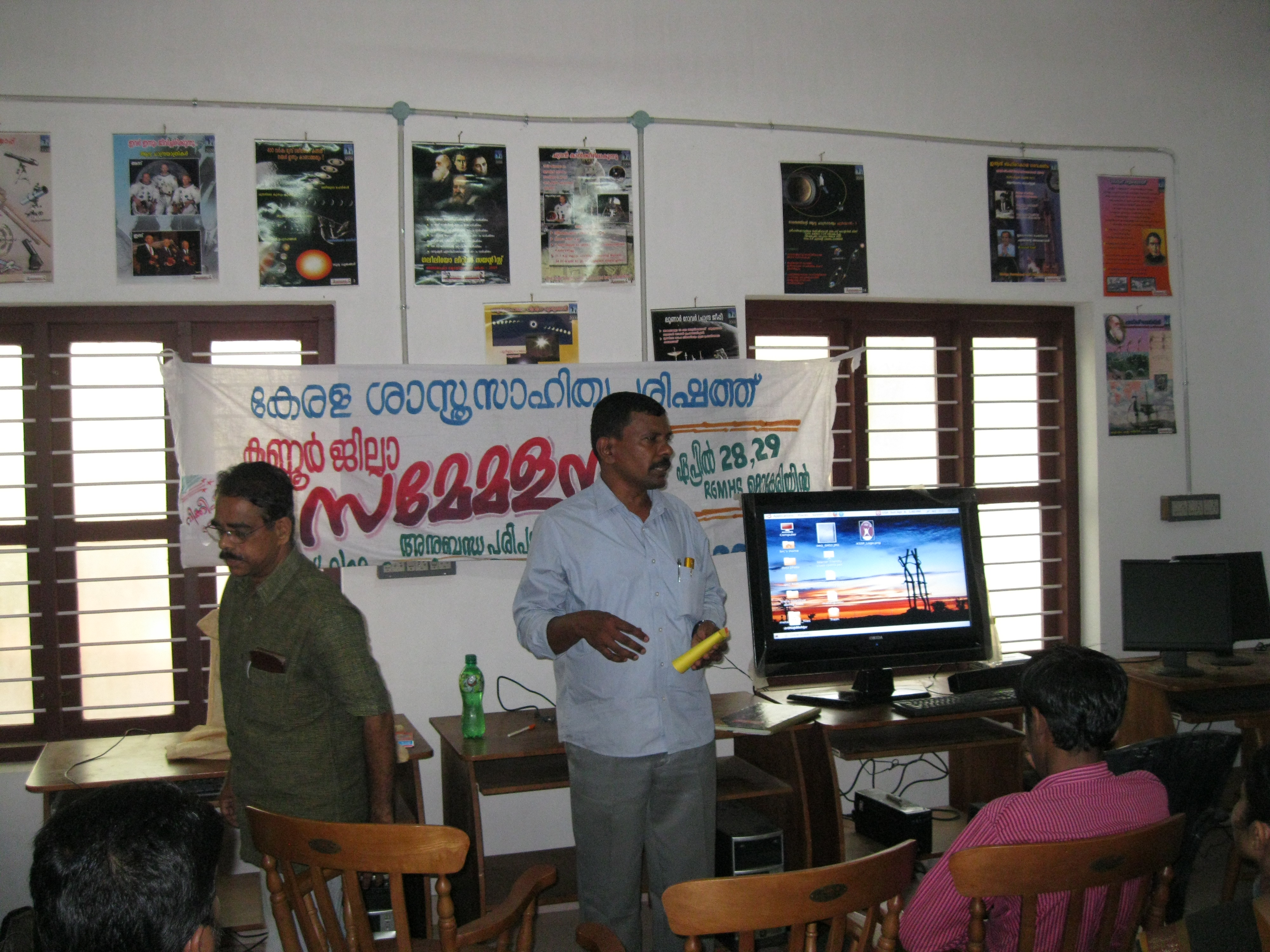 wikipedia workshop at Panoor, Kannur,Kerala on 8.4.12